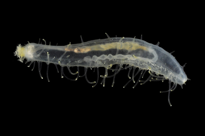 Juvenile Labidodemas from Madang, Papua New Guinea